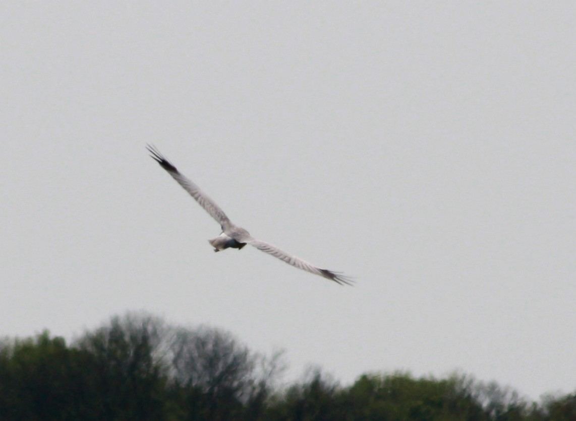 Hen Harrier (Circus cyaneus) male